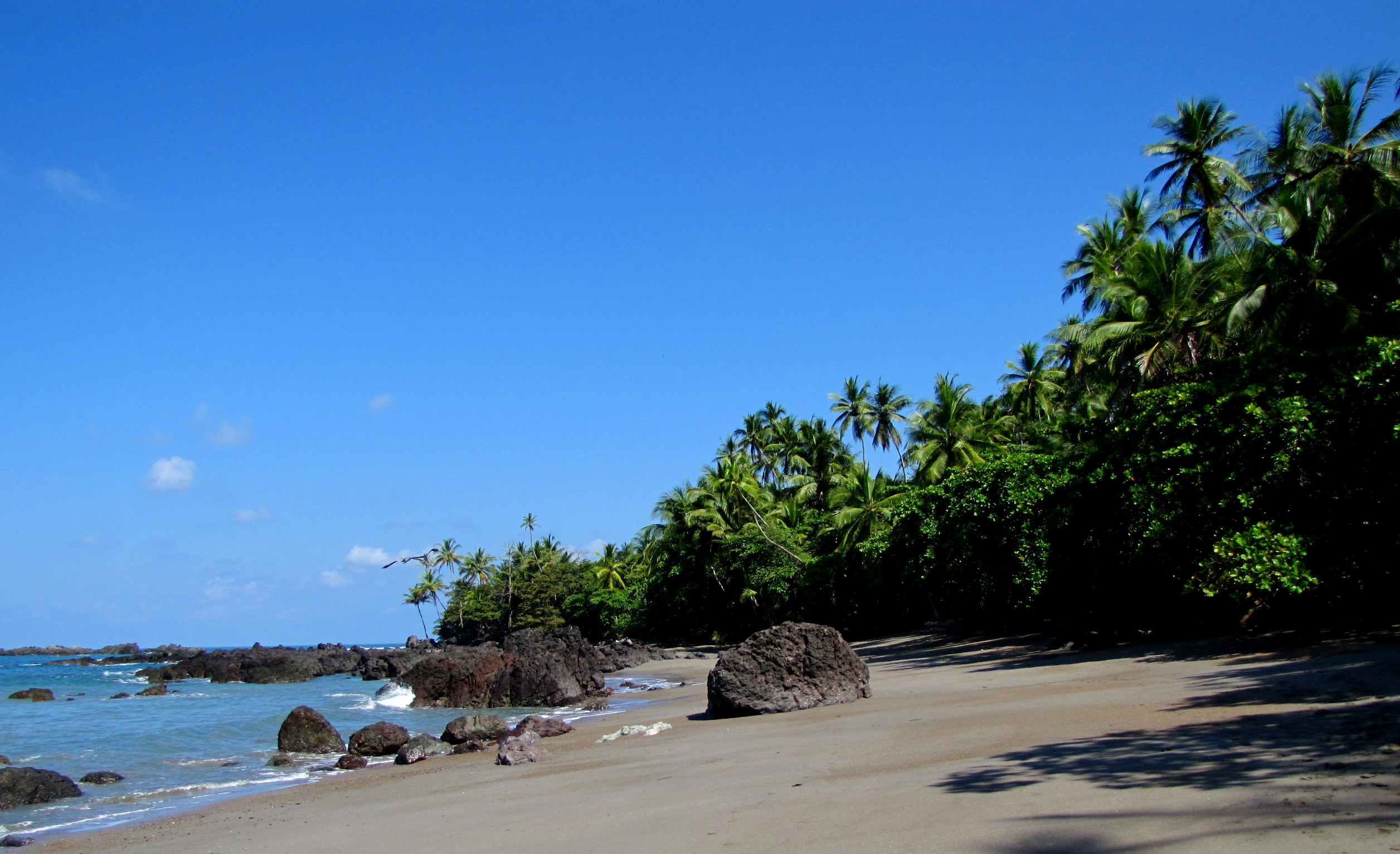 Corcovado National Park is located on the Osa Peninsula, Costa Rica